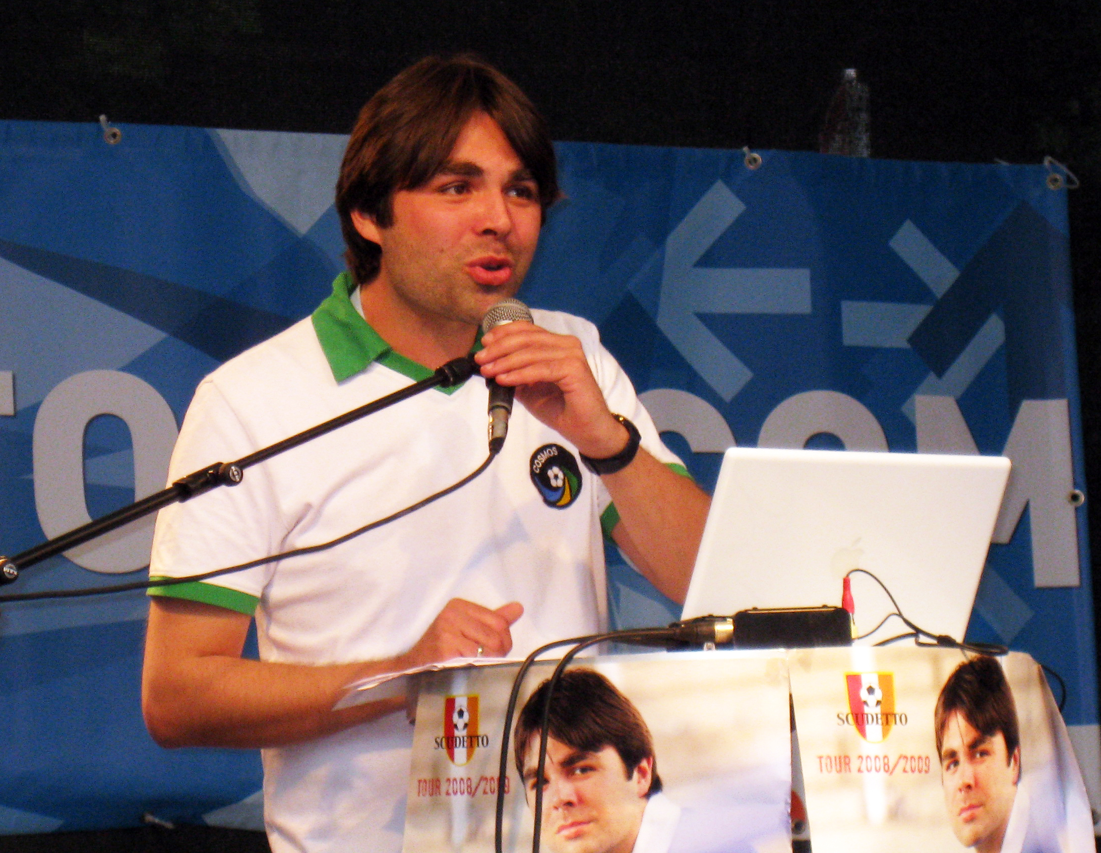 Ben Redelings on stage.